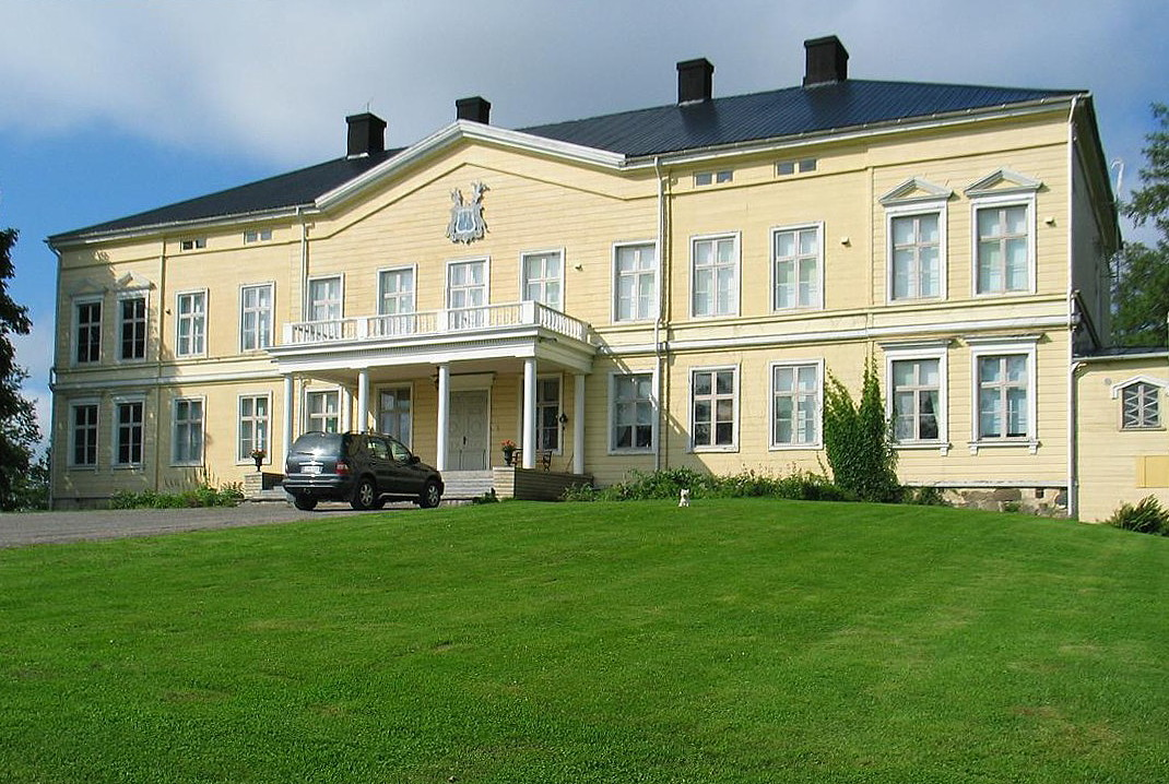 Hakoinen manor in Janakkala, Finland.